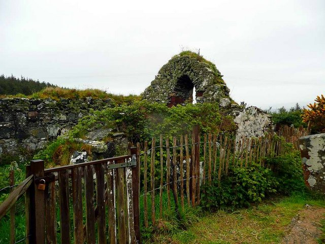 Ruins of Kilchattan Church Named by the OS as St Cathan's Church.